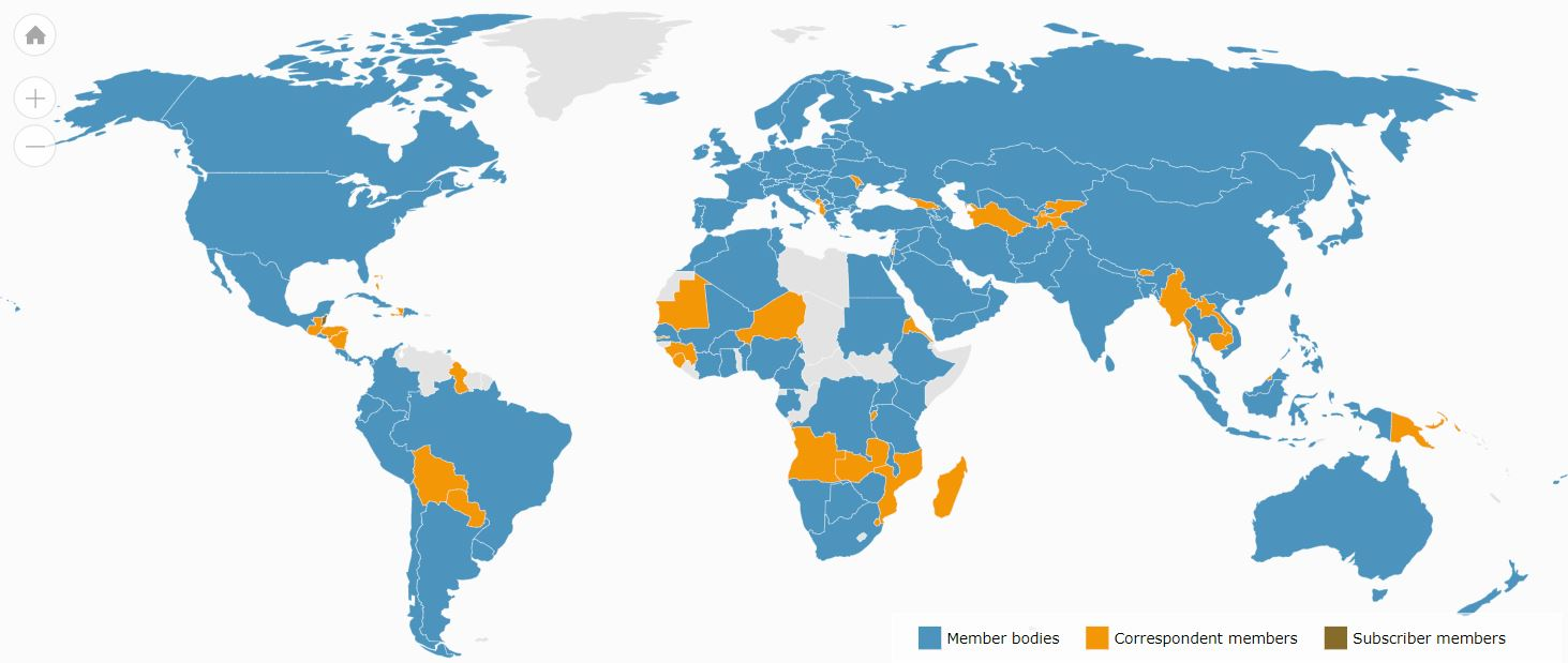 A map showing ISO membership as of 2017-10-06